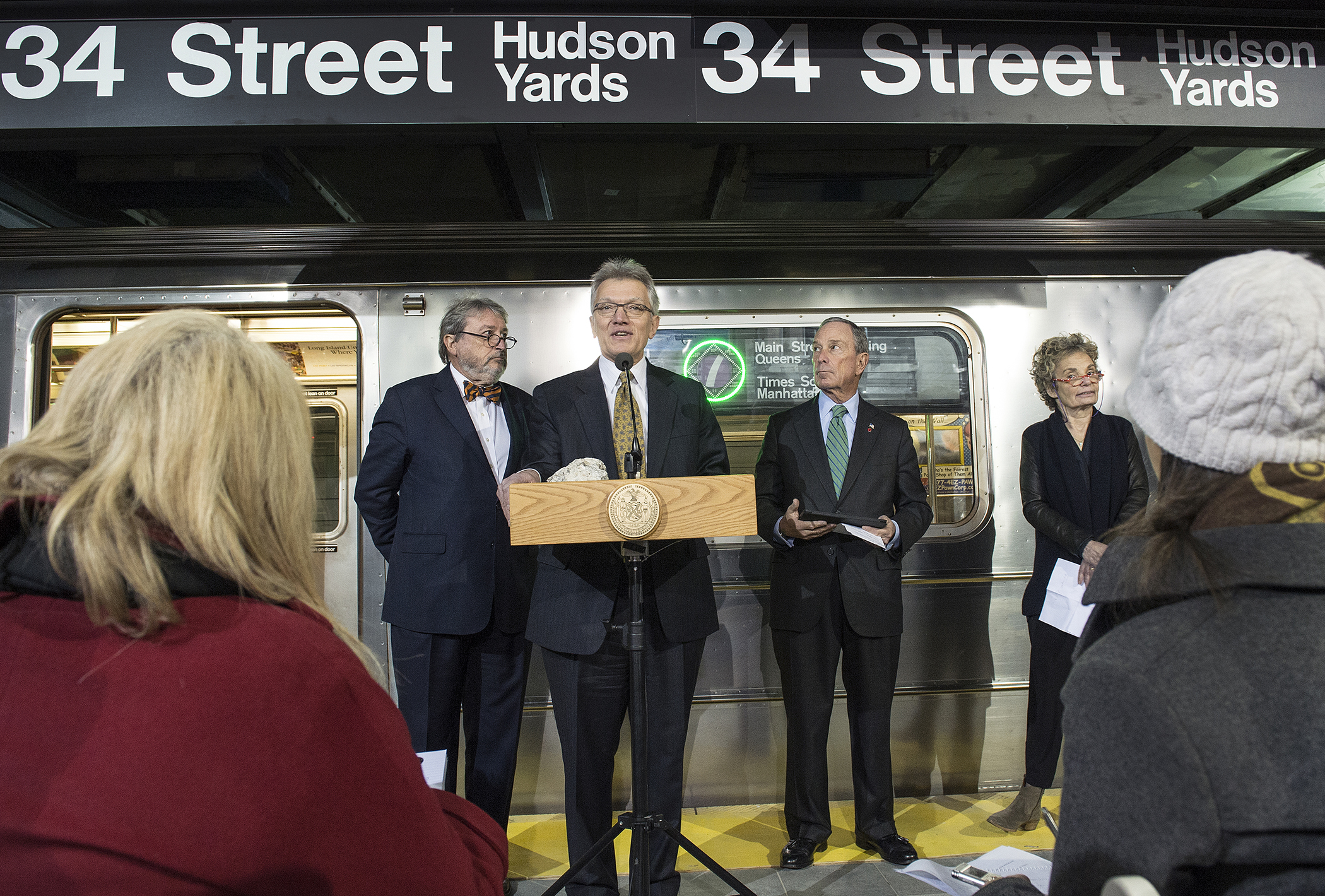 New York City Transit Executive Vice Present Robert Bergen speaks at press event where he, Mayor Michael Bloomberg and other officials took the first ride on the extension of the 7 Subway line, terminating at the new subway station located at 34th Street and Eleventh Avenue in Manhattan. Photo: MTA / Patrick Cashin Mayor and MTA Officials Ride 7 Line Extension